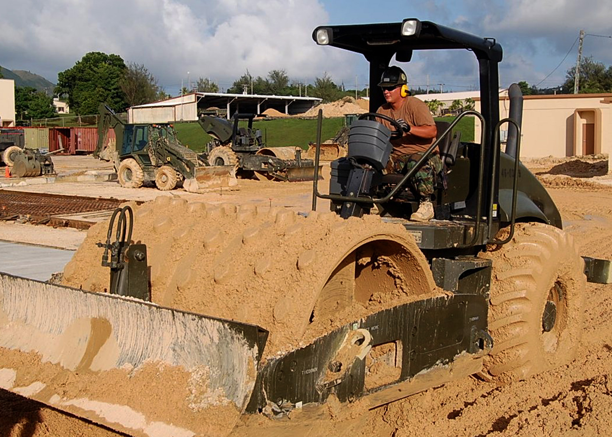 Builder 3rd Class Jeremy Stanowski uses a John Deere roller. 080928-N-1106H-001 CAMP COVINGTON, Guam (Sept. 28, 2008) Builder 3rd Class Jeremy Stanowski, assigned to Naval Mobile Construction Battalion (NMCB) 133, uses a John DeereCaterpillar roller to properly compact the ground before placing concrete during the construction of their "Hardstand" project at Camp Covington. NMCB-133 is on a seven-month deployment. — Released (Text by U.S. Navy) This is a Caterpillar, not a John Deere - look at the style of cab and steering column housing.